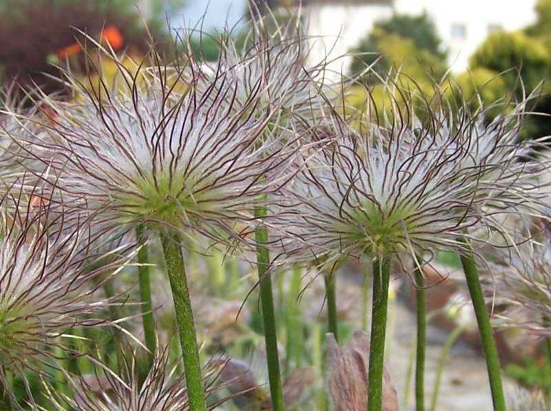 Pulsatilla vulgaris